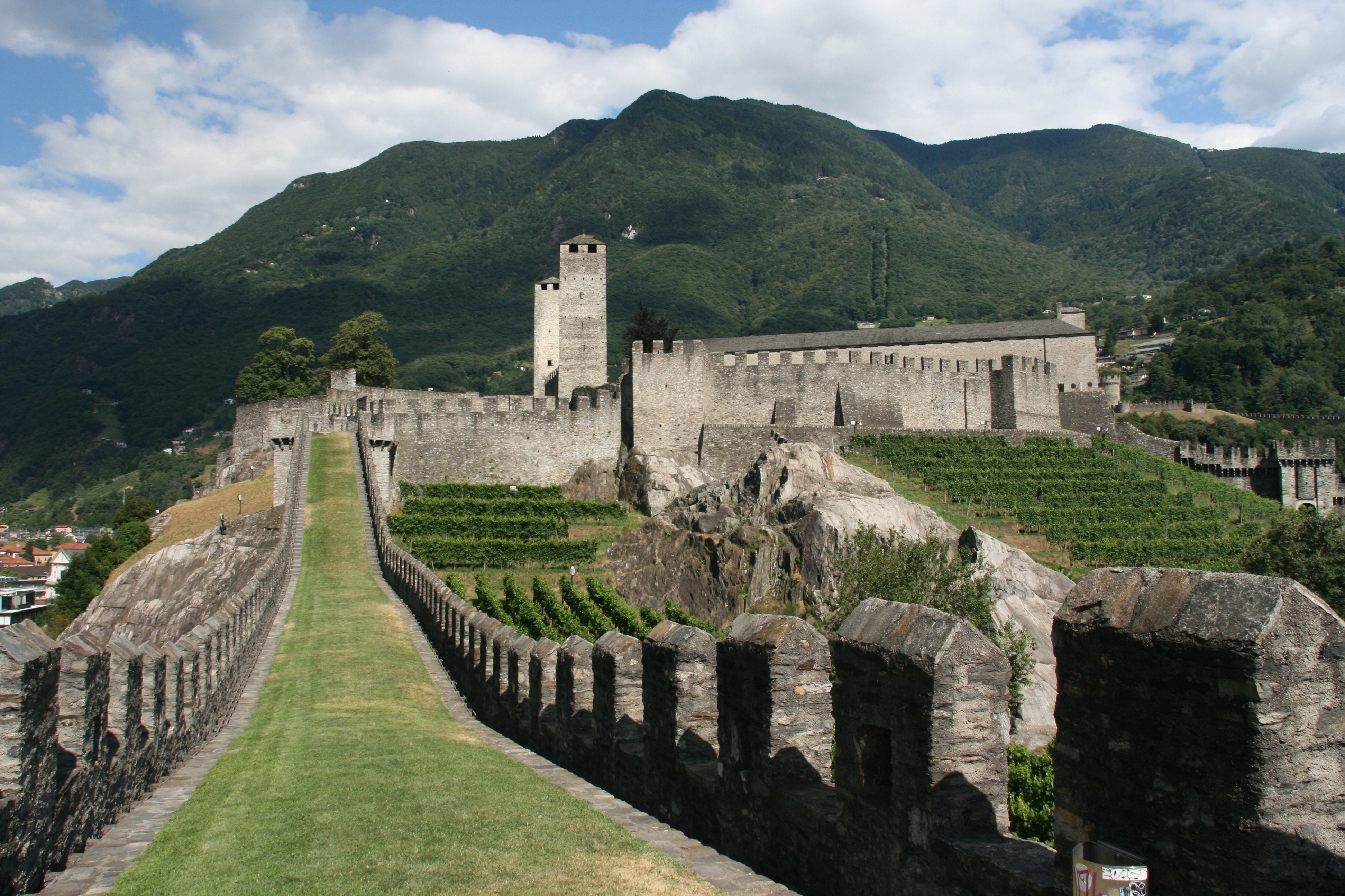 Bellinzona wall and towers